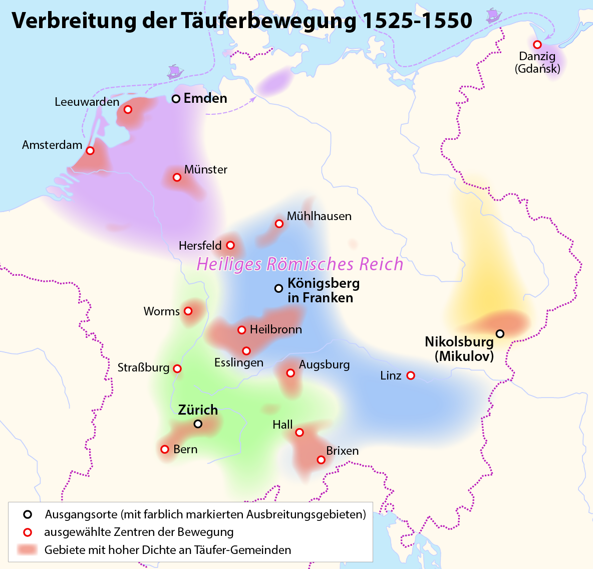 Spread of the Anabaptists 1525-1550